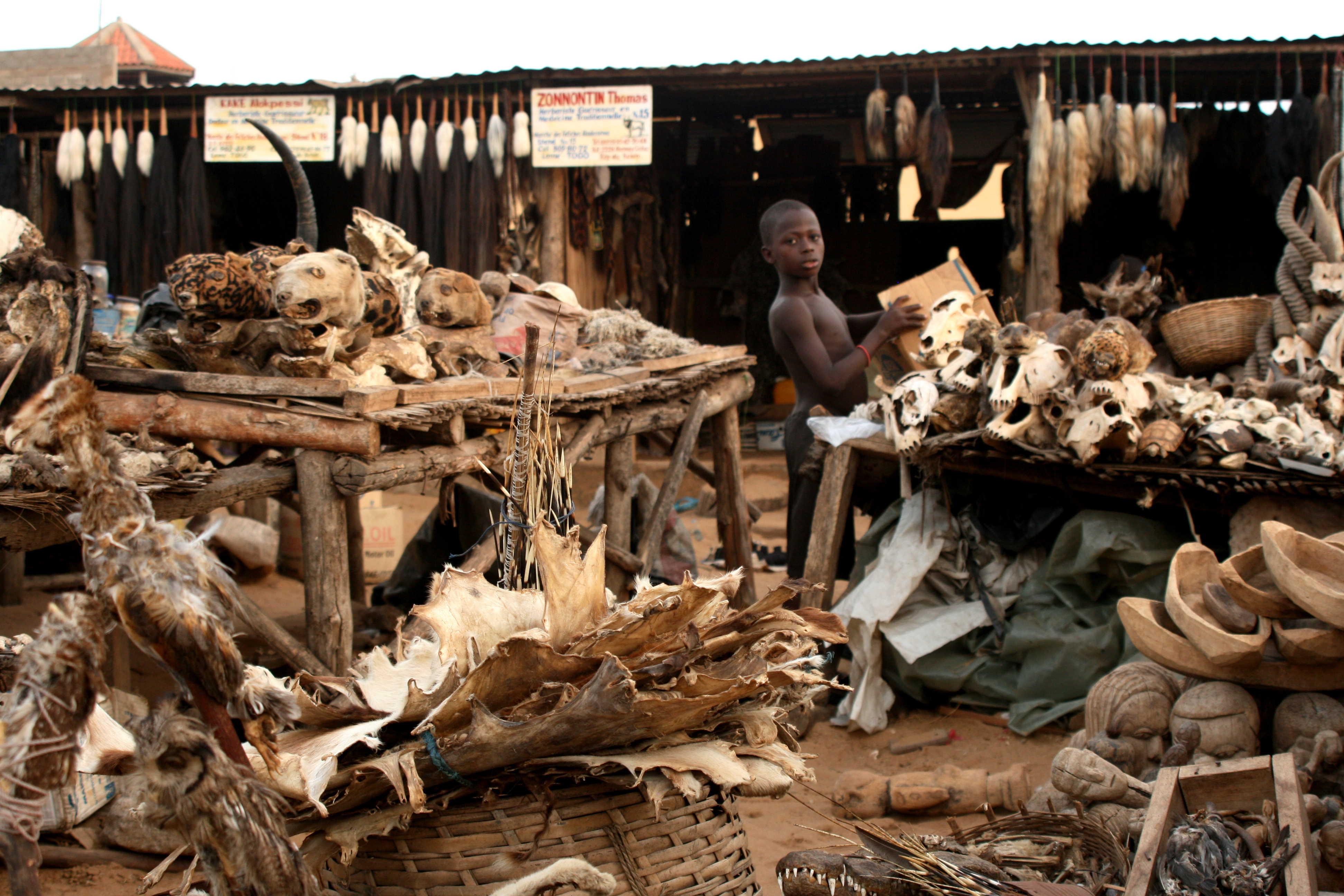 At the voodoo "power object" market in Lomé, Togo.